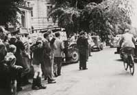 Angry swedes outside Russian embassy at Villagatan, Stockholm in the afternoon of June 16, 1952, after news of Russian MiG-15 shooting down a Catalina aircraft on rescue mission became widely known.